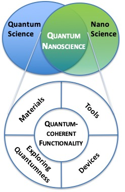 A list of some outcomes of quantum nanoscience which lies at the intersection of quantum science and nano science.